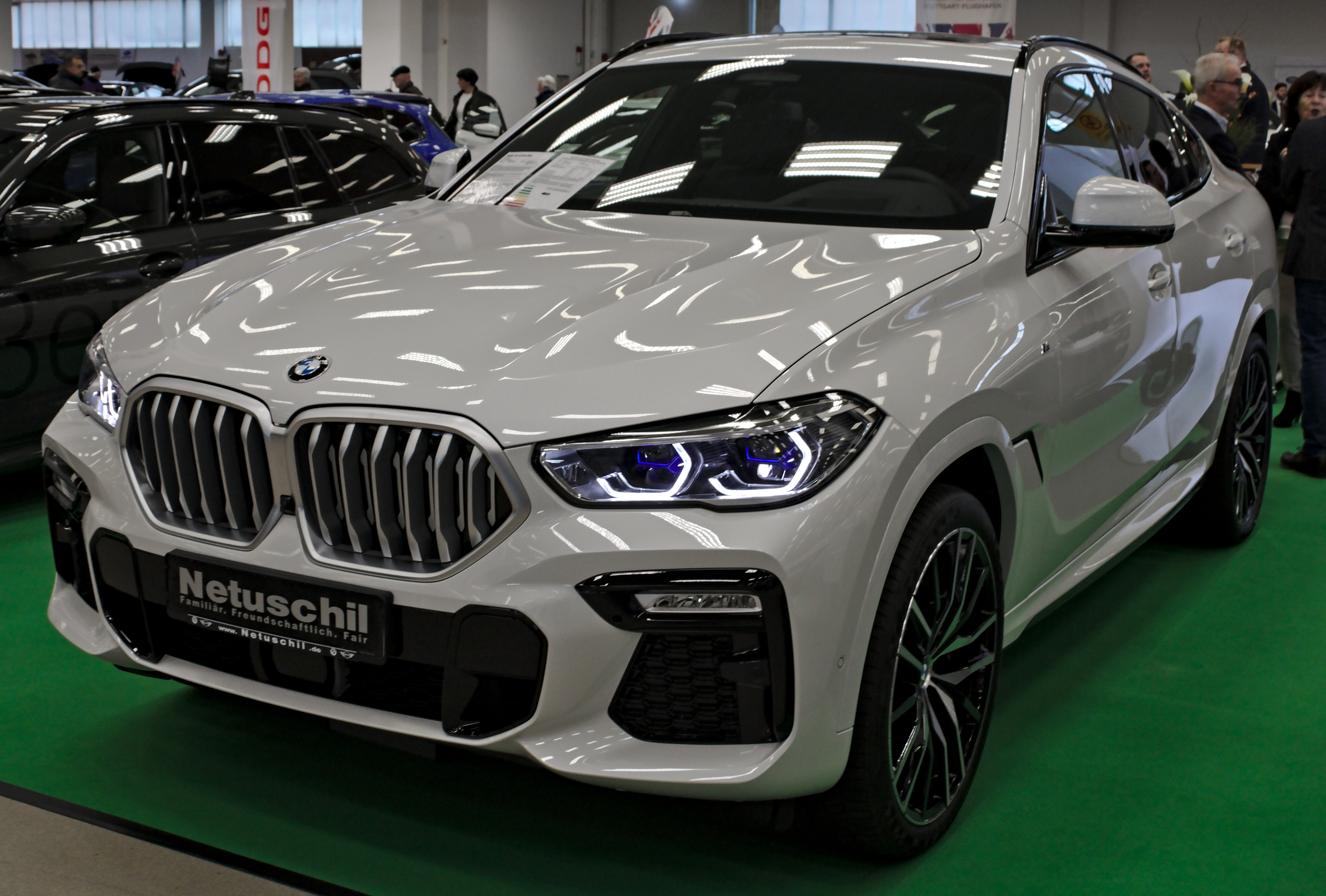 BMW_G06_Sindelfingen_2020